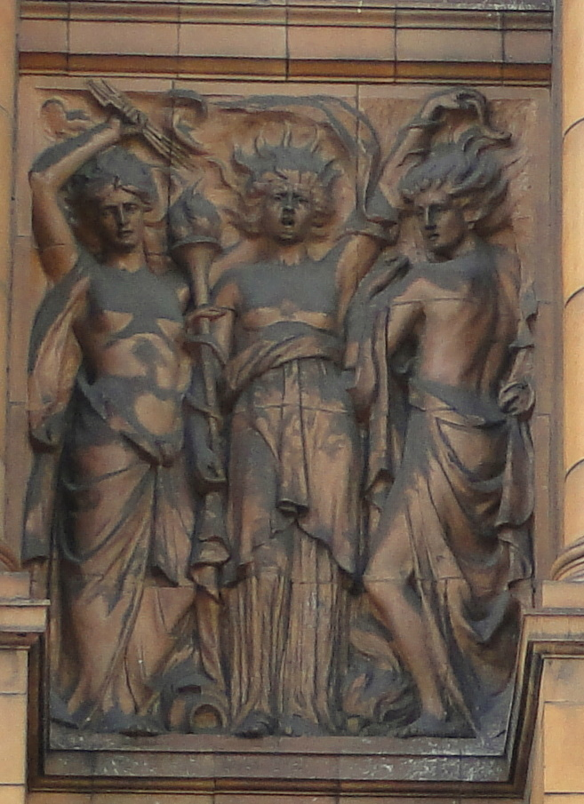 Terracotta panel representing fire